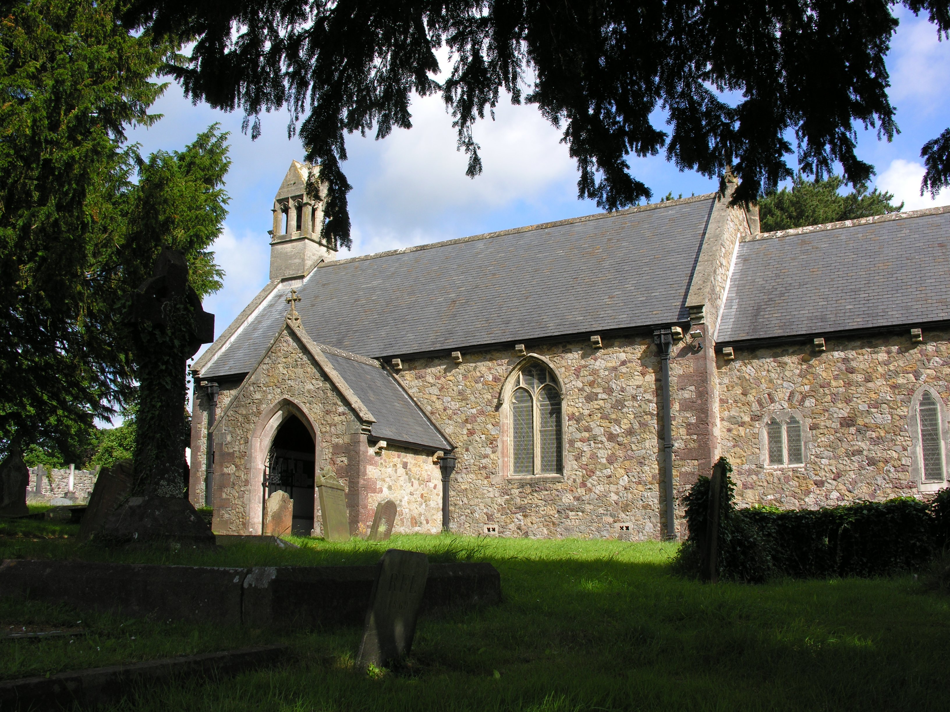 Parish Church of St John the Baptist, Radyr, south Wales